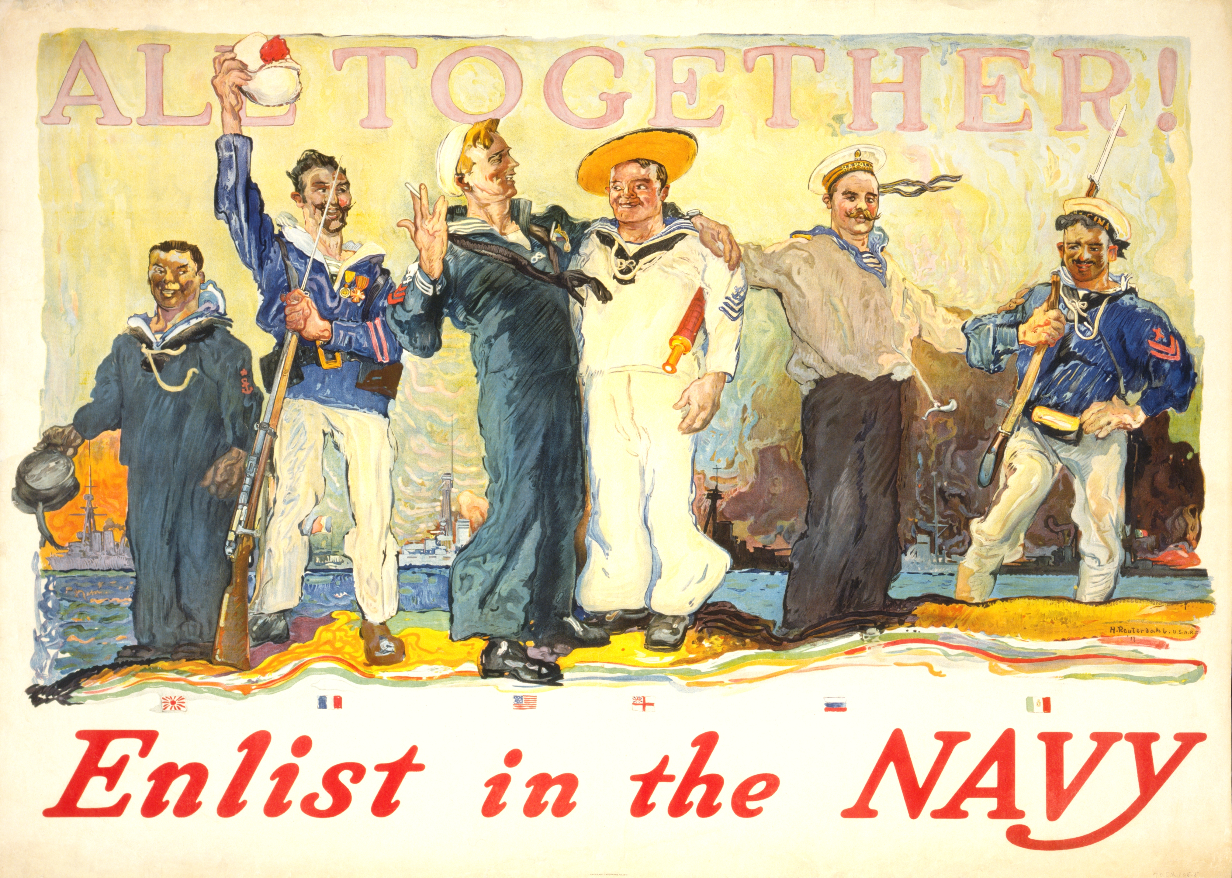 Recruitment poster, United States Navy. Poster showing an American sailor among sailors from various countries. Left to right: Japan, France, U.S., England, Russia, Italy